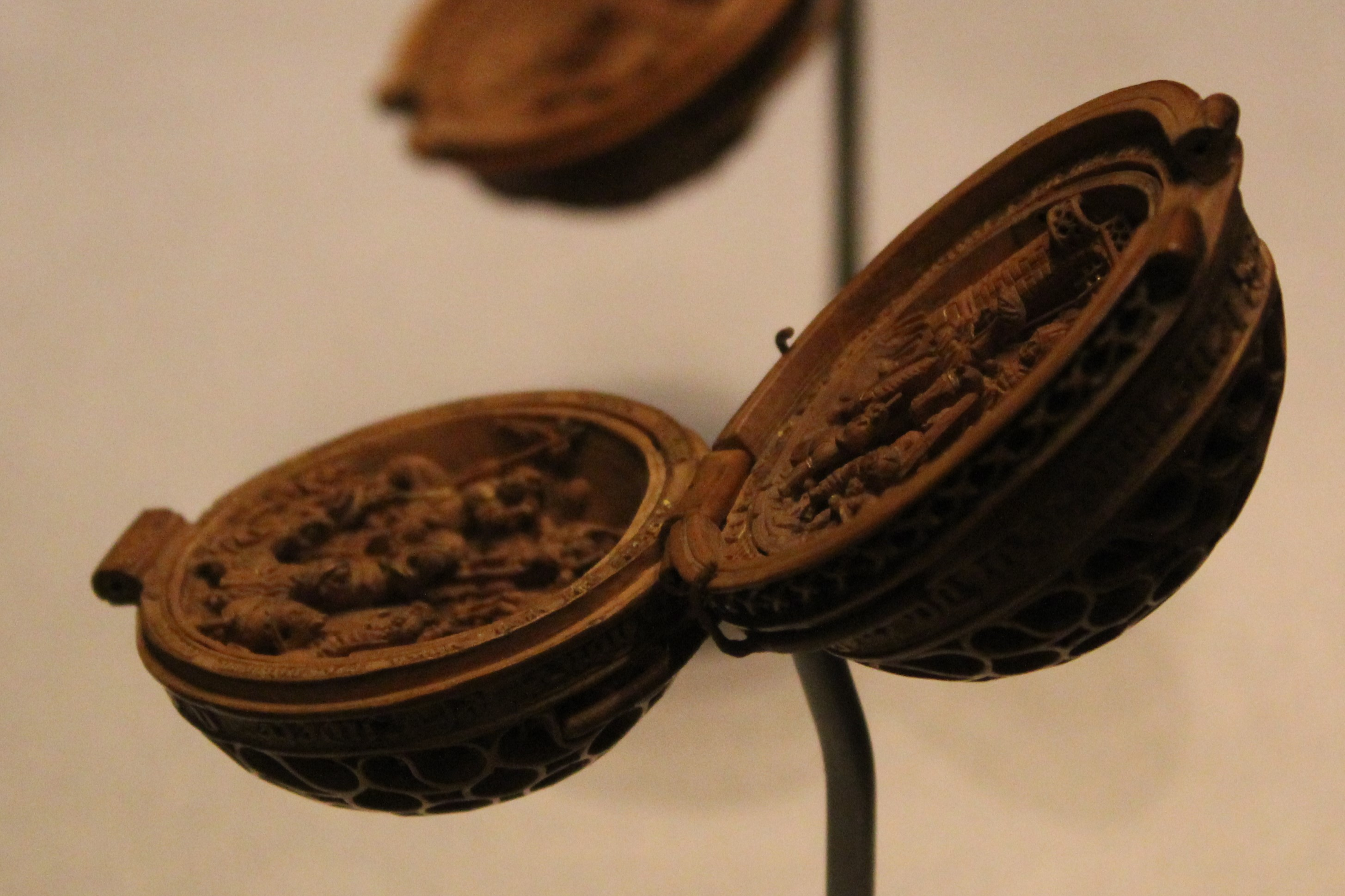 Waddesdon bequest. With thanks to the British Museum for allowing photographs